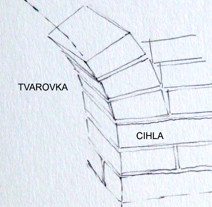 Brick vault